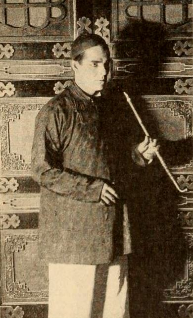 Still from the American western film The Invisible Hand (1920) with Antonio Moreno, on page 94 of the December 20, 1919 Exhibitors Herald.